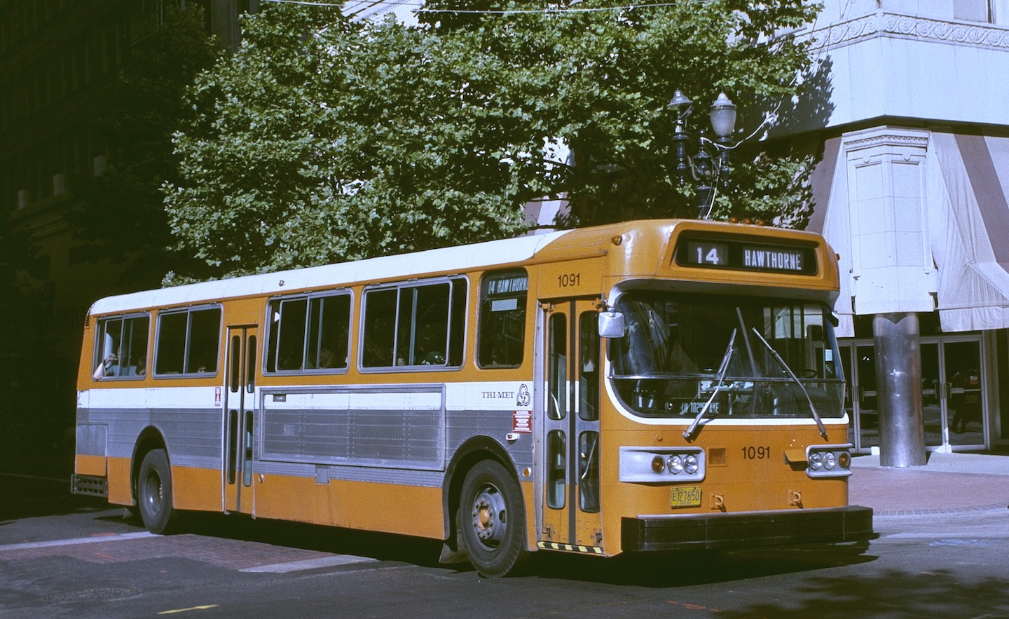 Tri-Met (now TriMet) bus 1091, built in 1976 by AM General, southbound on 5th Avenue at Morrison Street in downtown Portland, Oregon. It is operating on route 14-Hawthorne. The last of Tri-Met's 100 AM General buses were retired in 1989.